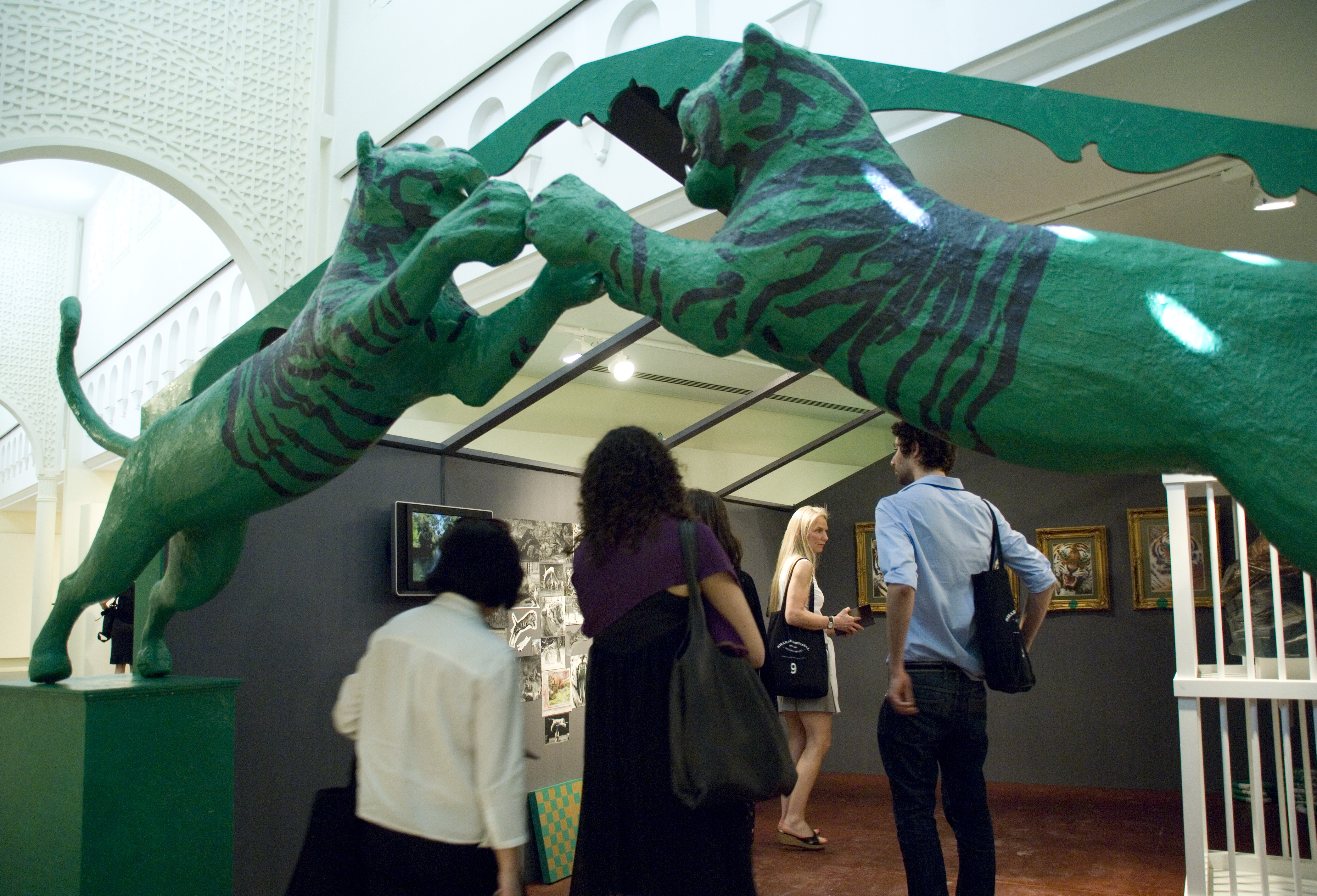 Installation view of `Halcyon Tarp` art project at Sharjah Biennial, UAE